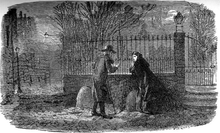 A Friend in Need by Marcus Stone. Wood engraving by Dalziel. 9.2 cm high x 15.6 cm wide. Second illustration for the tenth monthly number of Our Mutual Friend, Chapter Fifteen, "The Whole Case So Far," in the second book, "Birds of a Feather." The Authentic edition, facing p. 352. [This part of the novel originally appeared in periodical form in February 1865.] Scanned image and text by Philip V. Allingham.